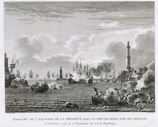 Massacre de l'equipage de la Modeste dans le Port de Genes, par les Anglais le 5 Octobre 1793, ou 13 Vendemiaire An 2 de la Republique